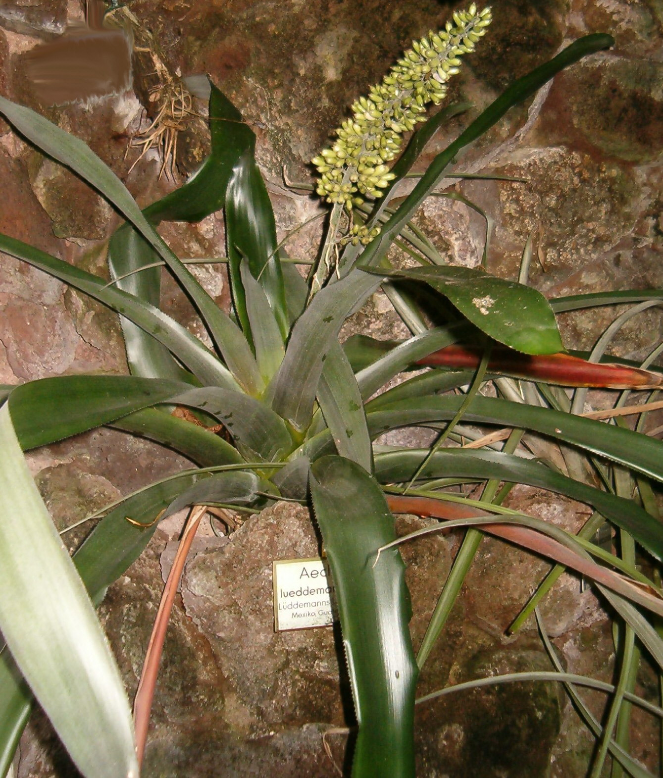 Aechmea lueddemanniana Location: Botanical Gardens Berlin Dahlem Habitus and Inflorescence